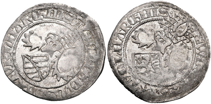 GERMANY, Sachsen (Kurfürstentum und Herzogtum). Ernst, with Albrecht and Wilhelm III. 1464-1486. AR Horngroschen (28mm, 2.79 g, 6h). Freiburg mint. Dated 5 (1465). + Є Λ D G DVCS SΛX TVR L HΛRCҺ HIS 5 (5 sideways), coat-of-arms surmounted by crested helmet left / + W • D • G • DVX • SΛX • TVR • L • HΛRCҺ • HIS • (annulet stops), coat-of-arms surmounted by crested helmet left. Levinson I-96b var. (65 for date). VF. Clear date.